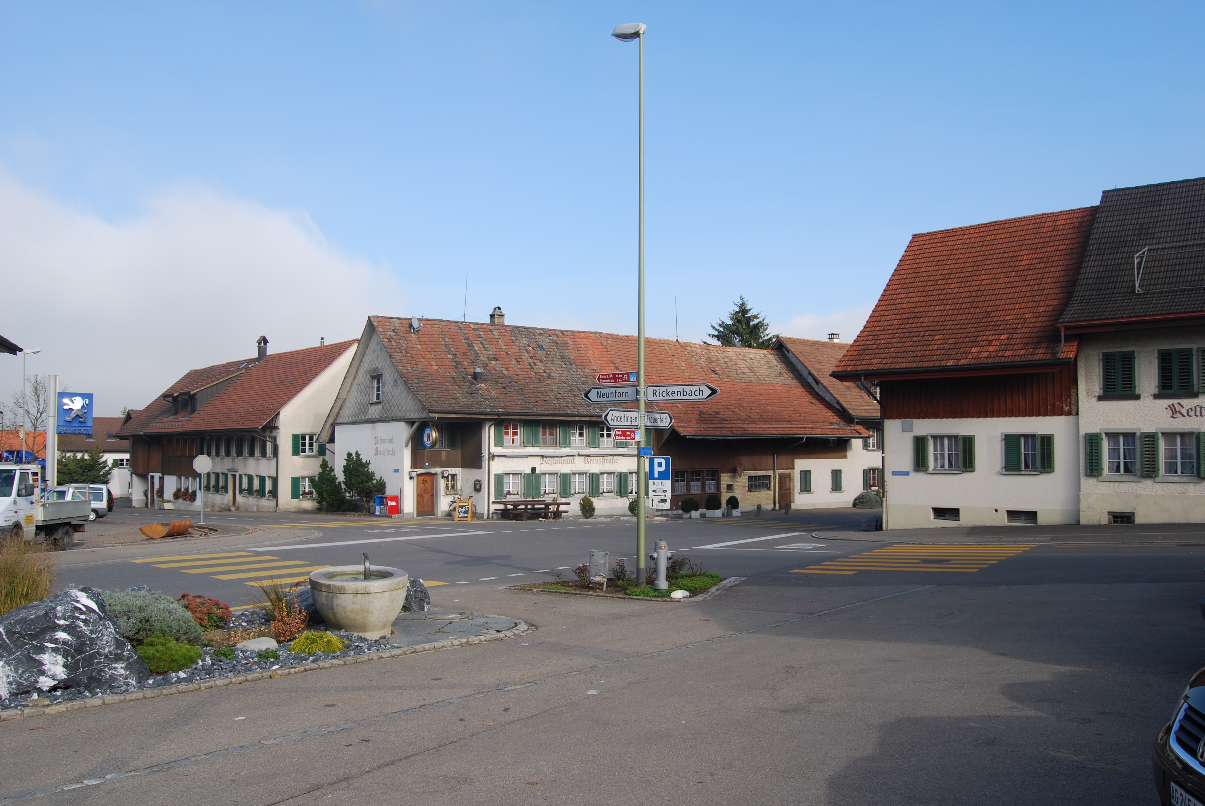 Altikon, canton of Zürich, SwitzerlandEsperanto: Altikon, Kantono Zuriko, Svislando